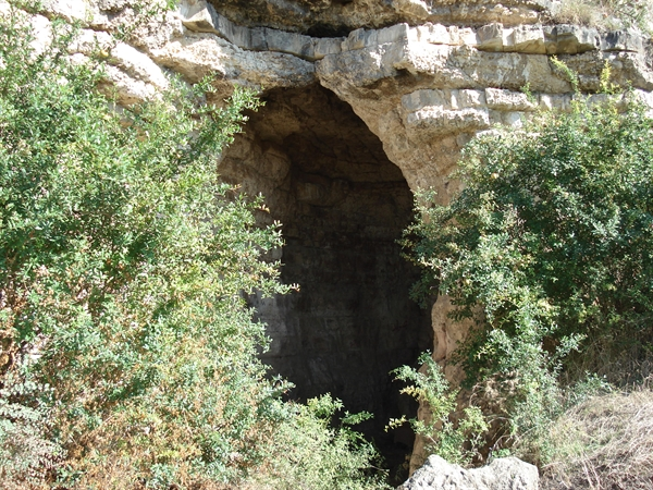 Kamarband (Belt) cave entry - Toroujen (ShahidAbad)